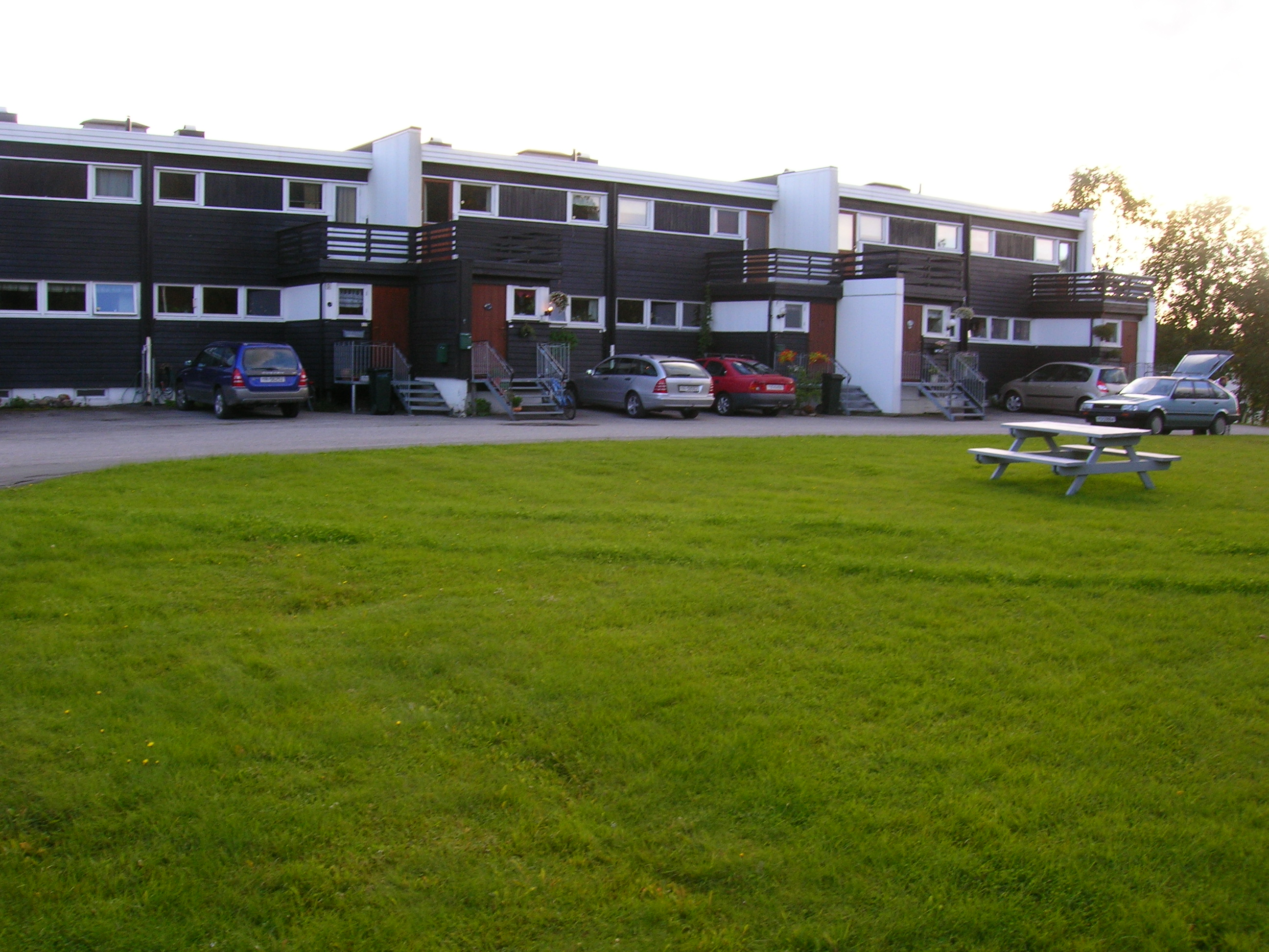 Elgveien housing cooperative on Selfors, north of Mo i Rana, Rana municipality, county of Nordland, Norway, Photo 4 September, 2007 with a Nikon Coolpix 5600 5,1 Megapixel camera.